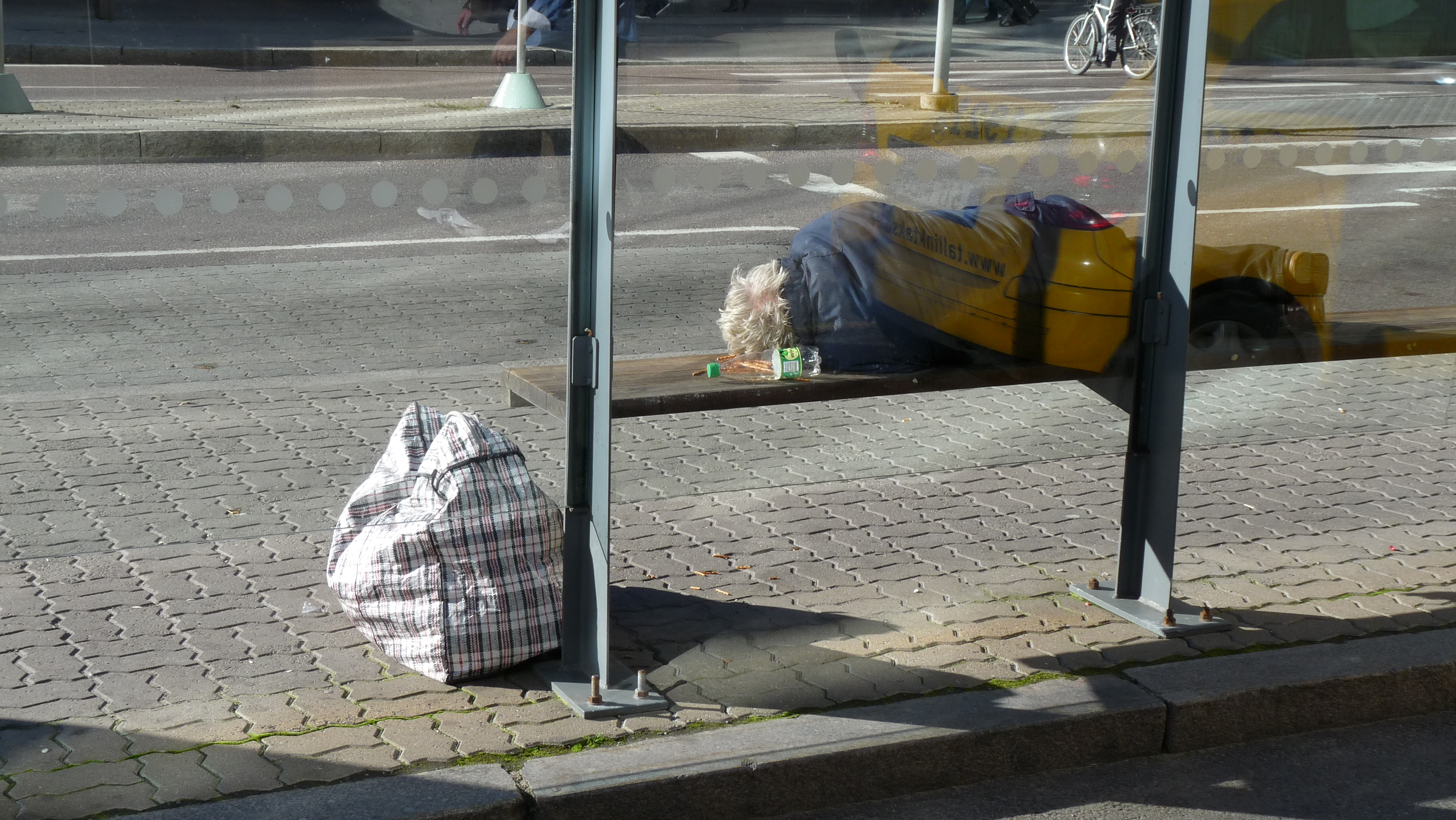 Homeless near Viru Keskus in Tallinn, Estonia.